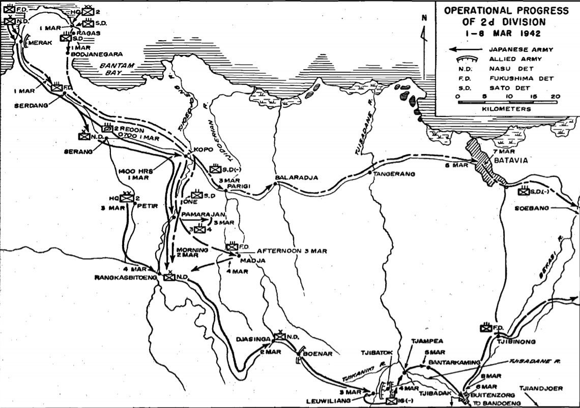 Operational progress of the IJA 2nd Division during the Battle of Java, starting from its landing at Merak/Bantam Bay